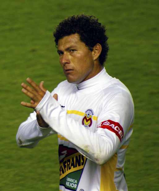 Miguel Sabah (cropped image)